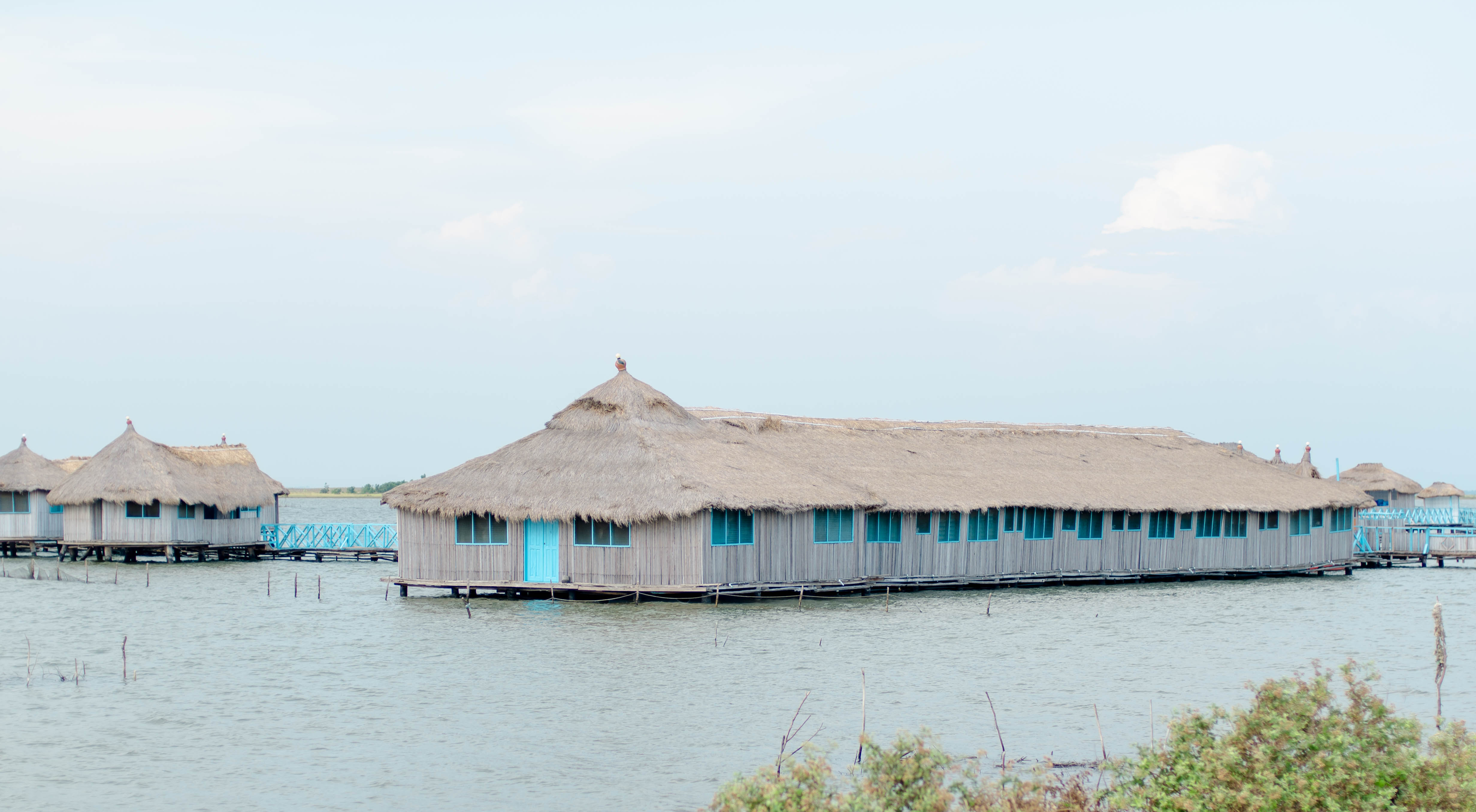 Keta Lagoon, also called Anlo-Keta lagoon, is the largest of the over 90 lagoons that cover the 550 km stretch of the coastline of Ghana. This lagoon is 126.13 km in length. It is located in the eastern coast of Ghana and separated from the Gulf of Guinea by a narrow strip of sandbar. This open salty water is surrounded by flood plains and mangrove swamps. Together they form the Keta Lagoon Ramsar site which covers 1200 km2